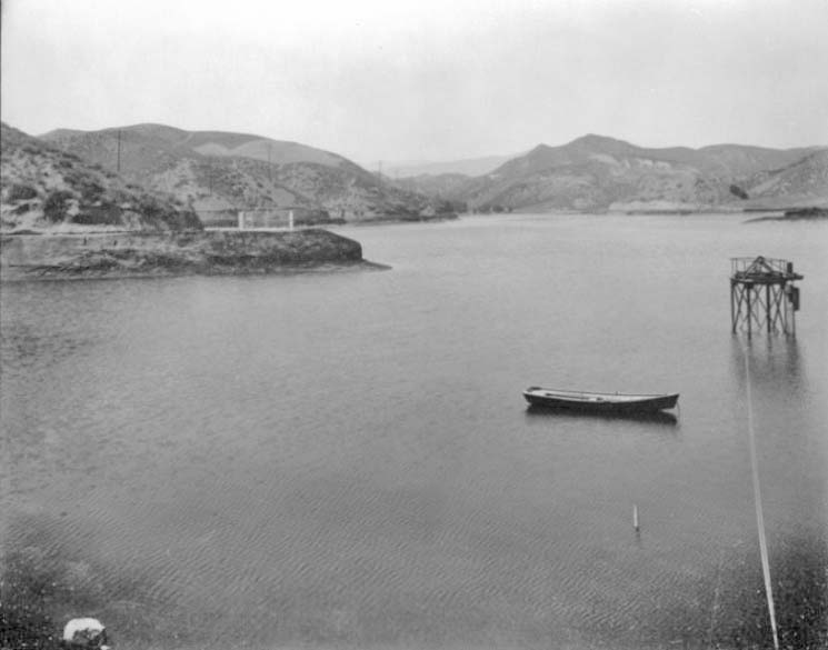 Looking north across the reservoir. Photo taken before 1936. From the Historical Photo Collection of the Department of Water and Power, City of Los Angeles.